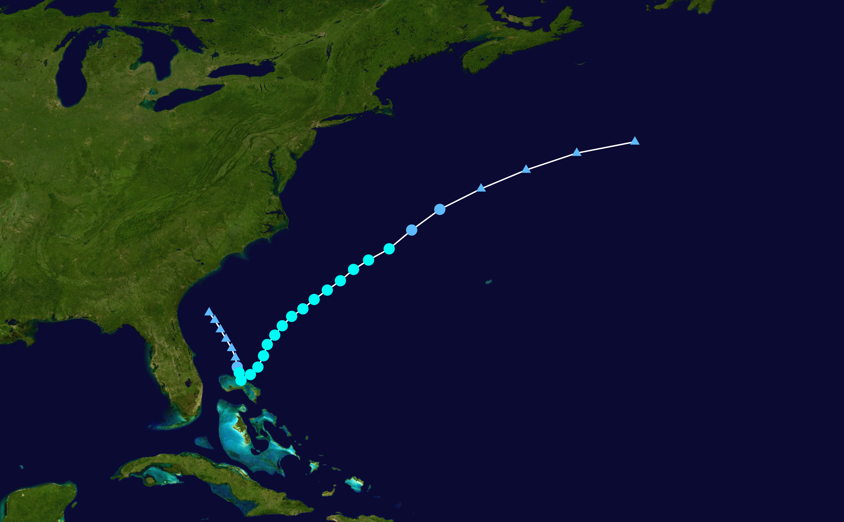 Track map of Tropical Storm Bret of the 2011 Atlantic hurricane season. The points show the location of the storm at 6-hour intervals. The colour represents the storm's maximum sustained wind speeds as classified in the Saffir–Simpson scale (see below), and the shape of the data points represent the nature of the storm, according to the legend below. Saffir–Simpson scale Tropical depression≤38 mph≤62 km/h Category 3111–129 mph178–208 km/h Tropical storm39–73 mph63–118 km/h Category 4130–156 mph209–251 km/h Category 174–95 mph119–153 km/h Category 5≥157 mph≥252 km/h Category 296–110 mph154–177 km/h Unknown Storm type Tropical cyclone Subtropical cyclone Extratropical cyclone / Remnant low / Tropical disturbance / Monsoon depression